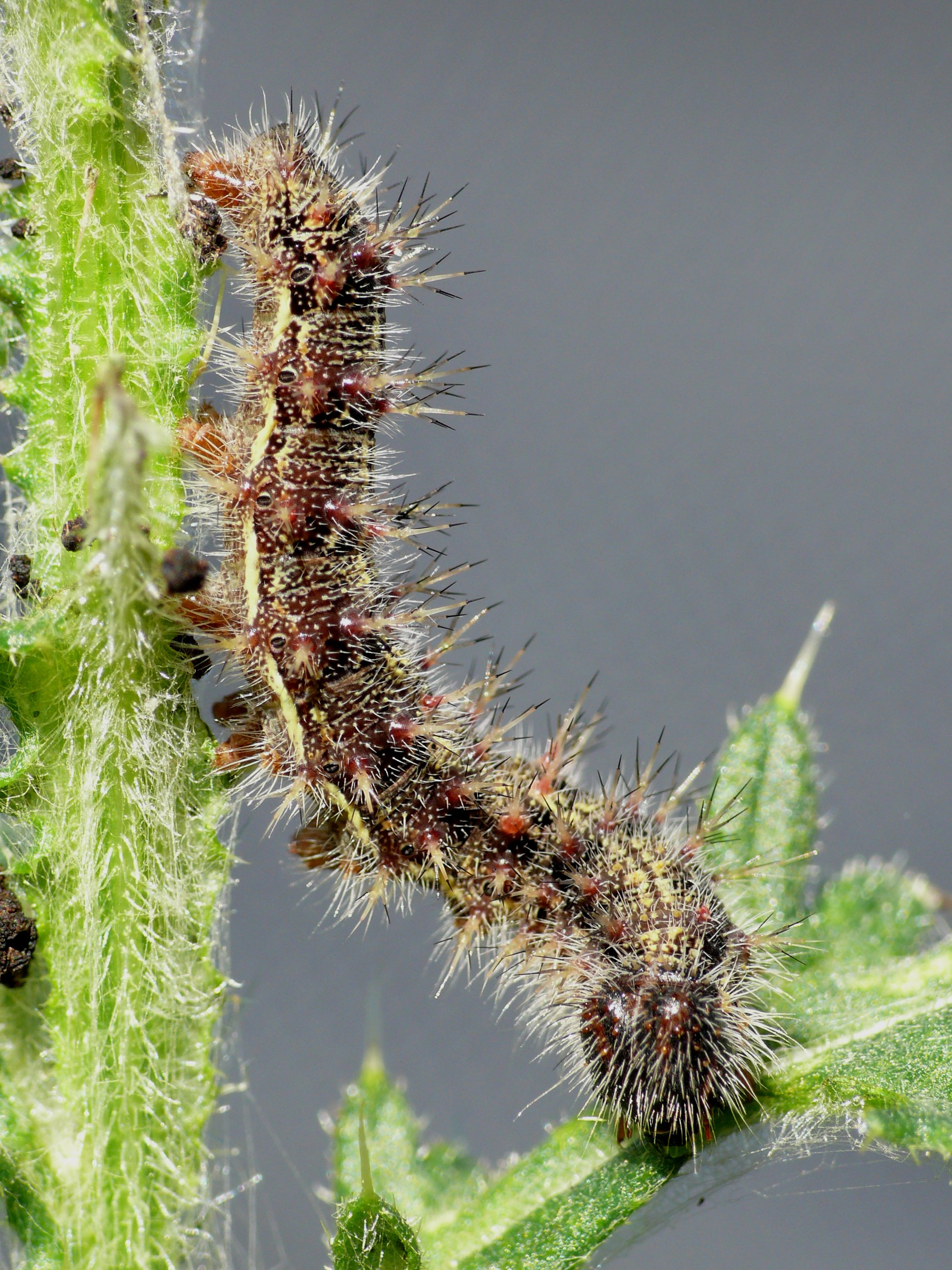 Caterpillar aof Painted Lady